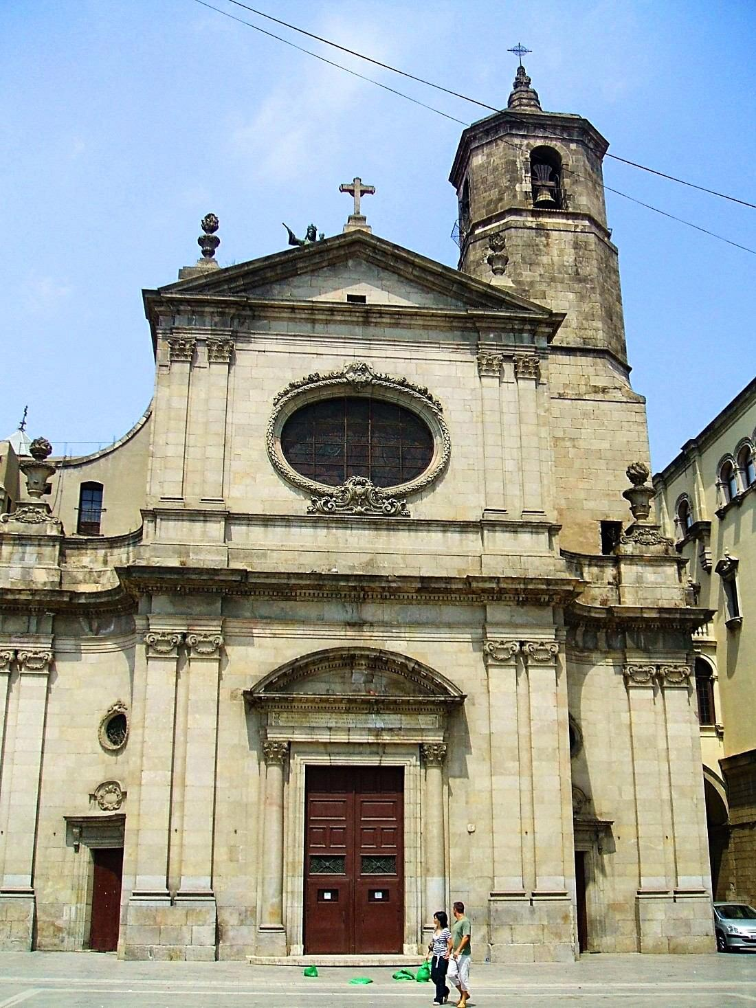 Basílica de la Merced, Barcelona (Cataluña, España)